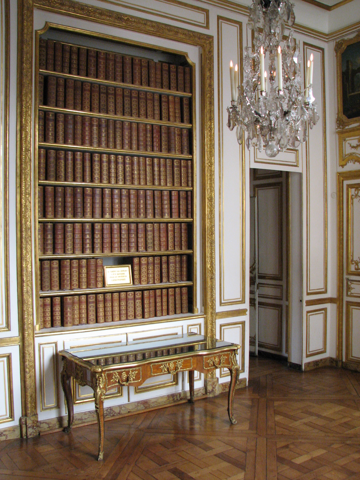 Cabinet des Dépêches in the Palace of Versailles